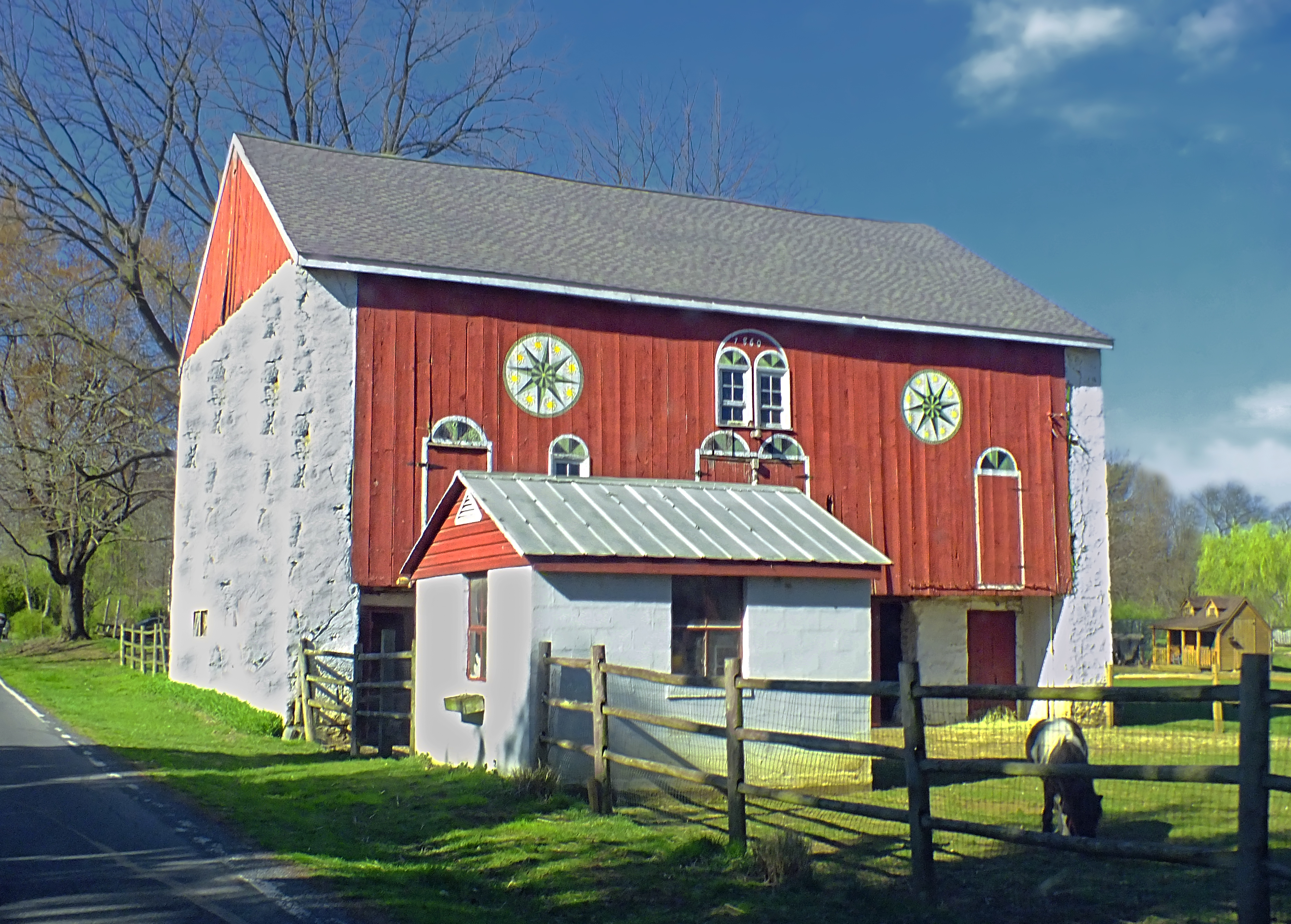 Pennsylvania German–style barn, Maxatawny Township, Berks County.